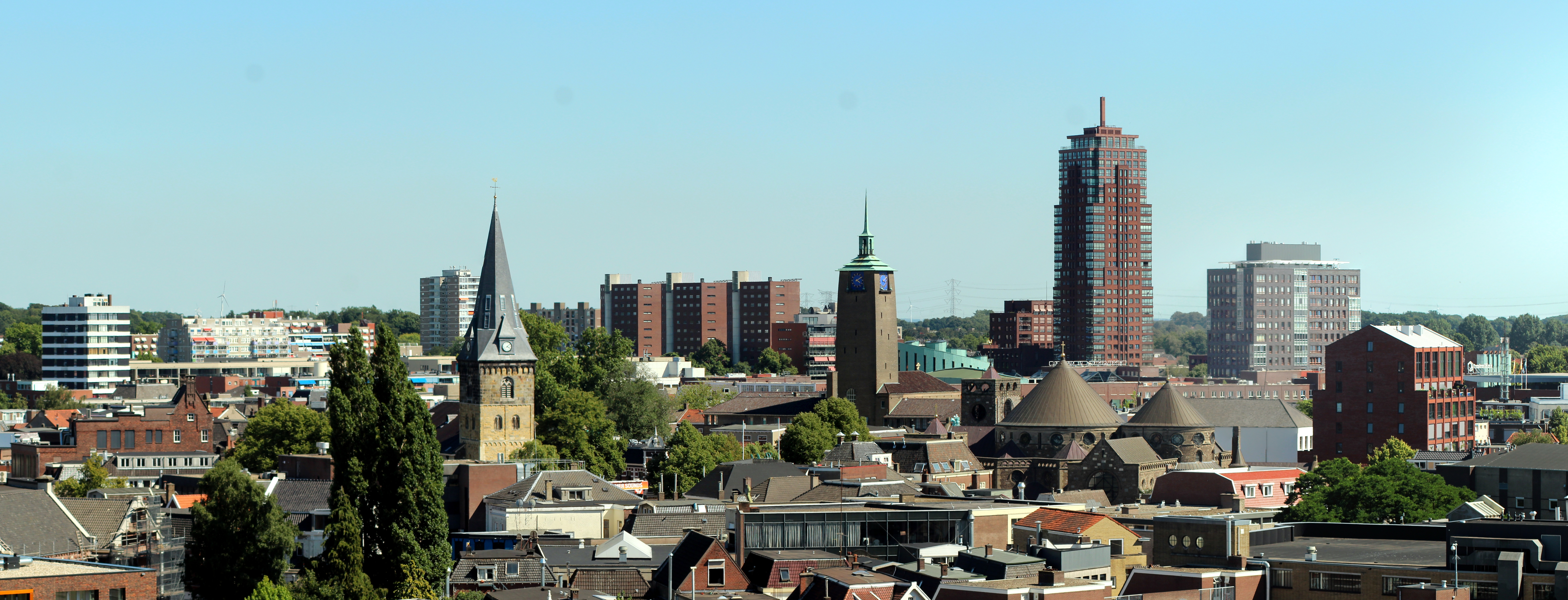 Birds eye view of Enschede